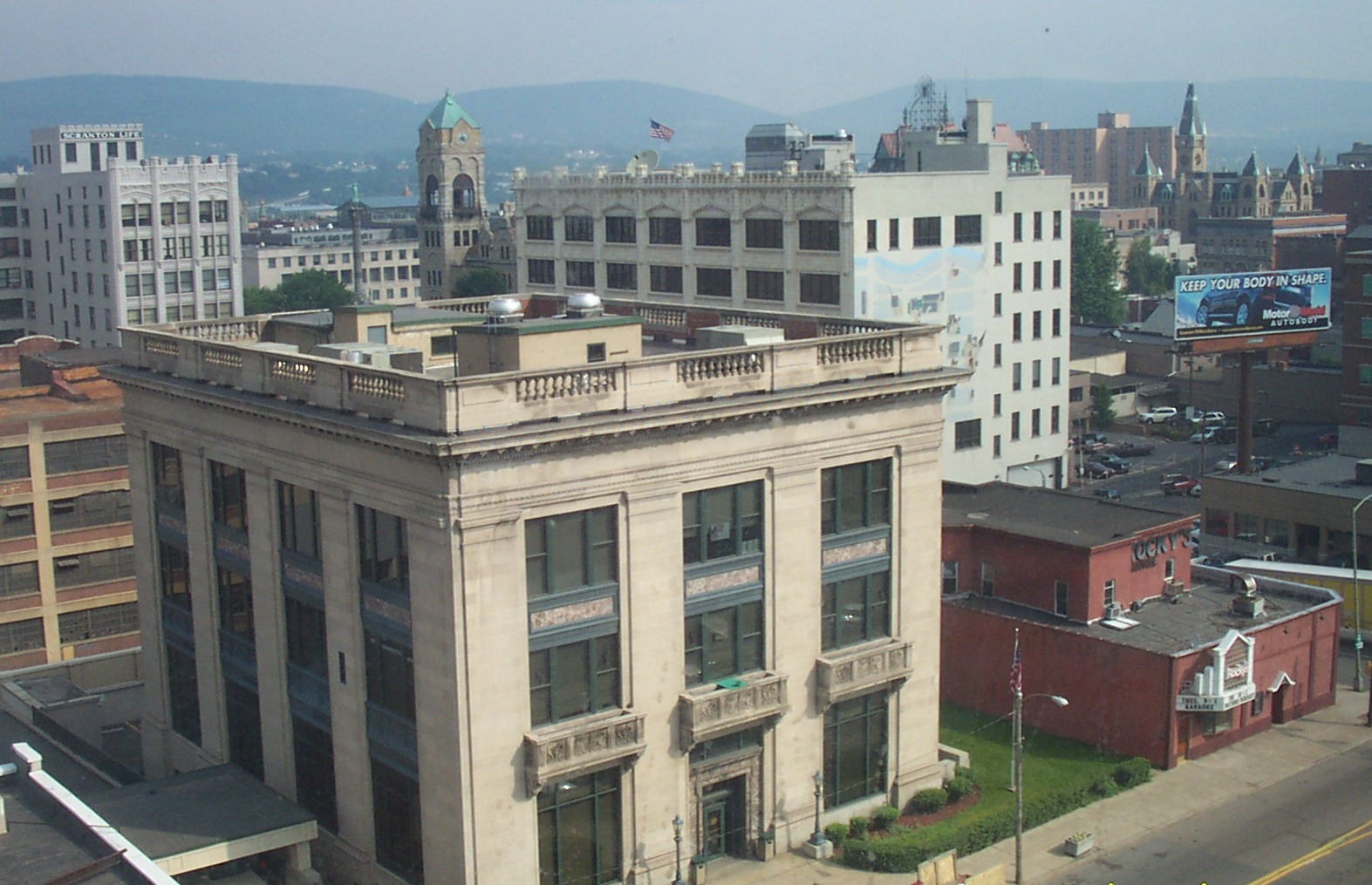 Downtown Scranton, Pennsylvania, USA